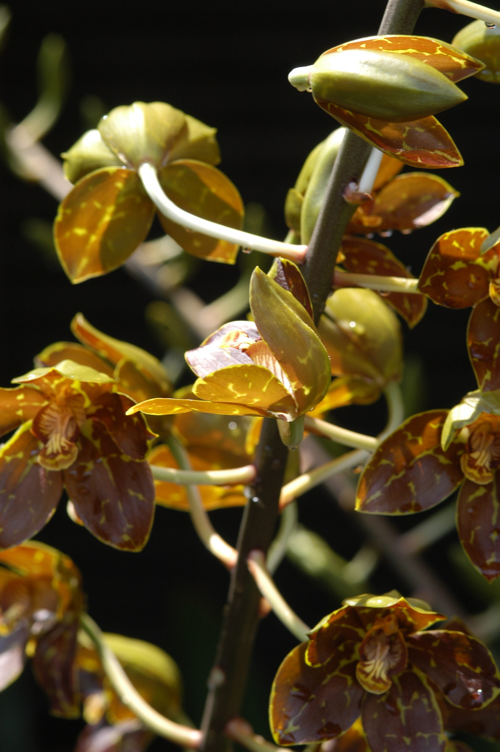 Grammatophyllum speciosum